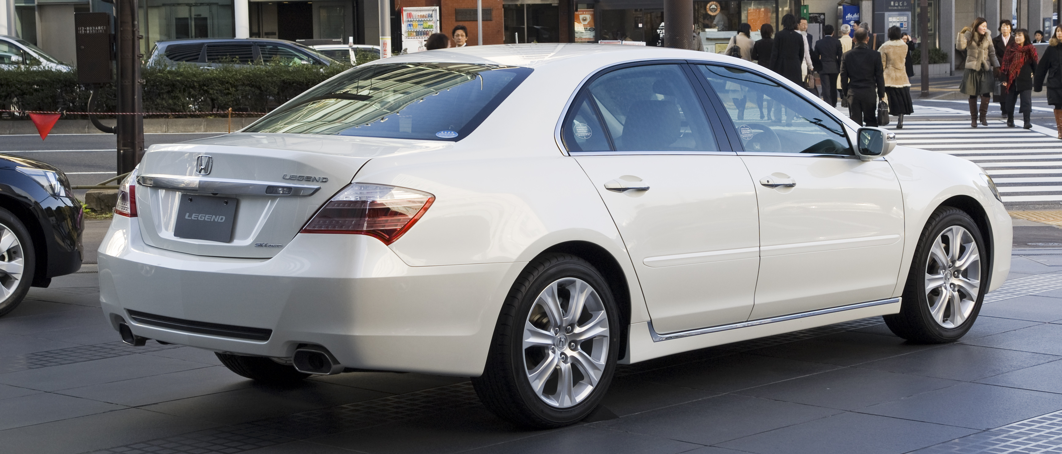 2008 4th generation Honda Legend